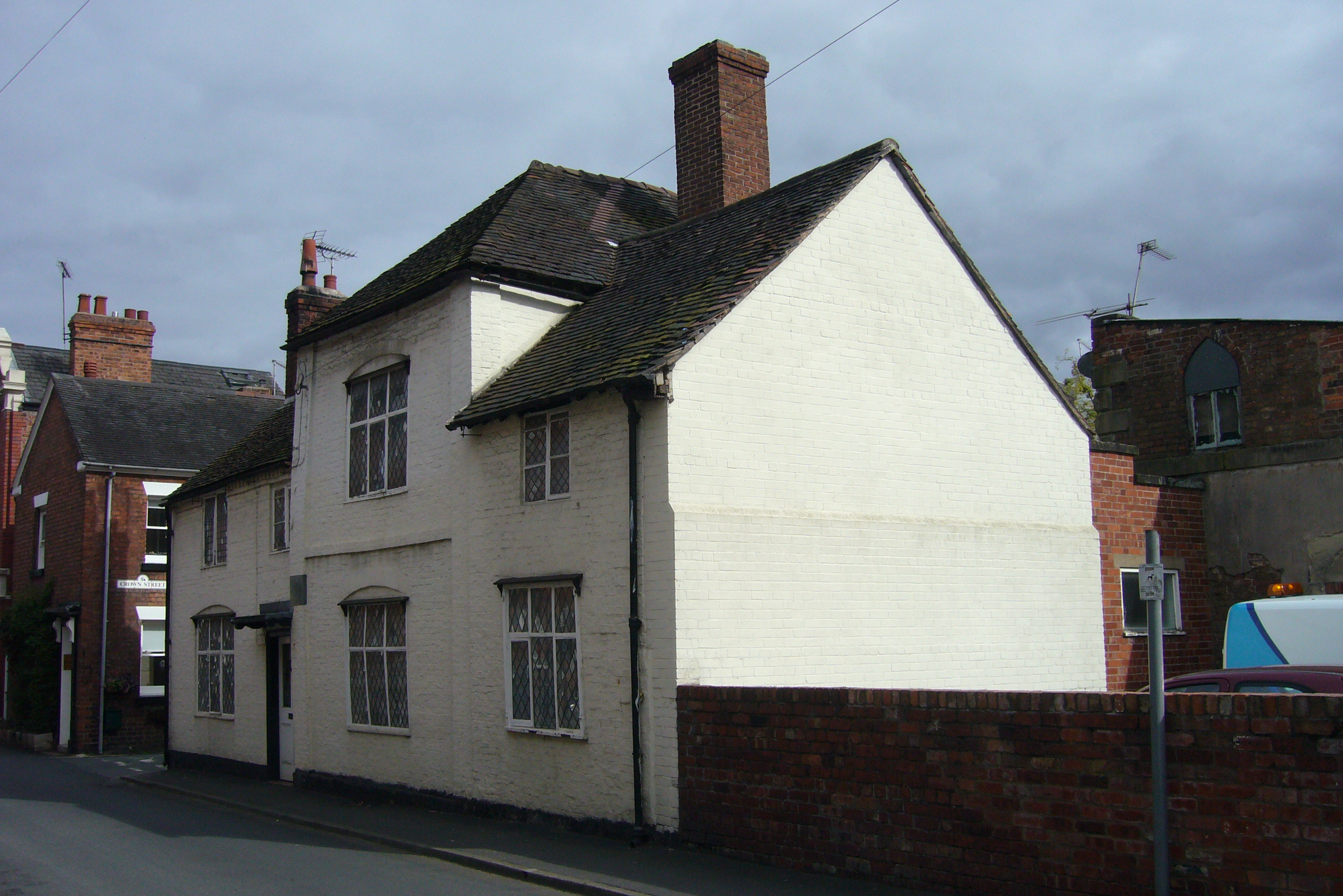 House in Wem where William Hazlitt (and his father) lived between 1787 and 1813. A stone plaque above the doorway provides this information.